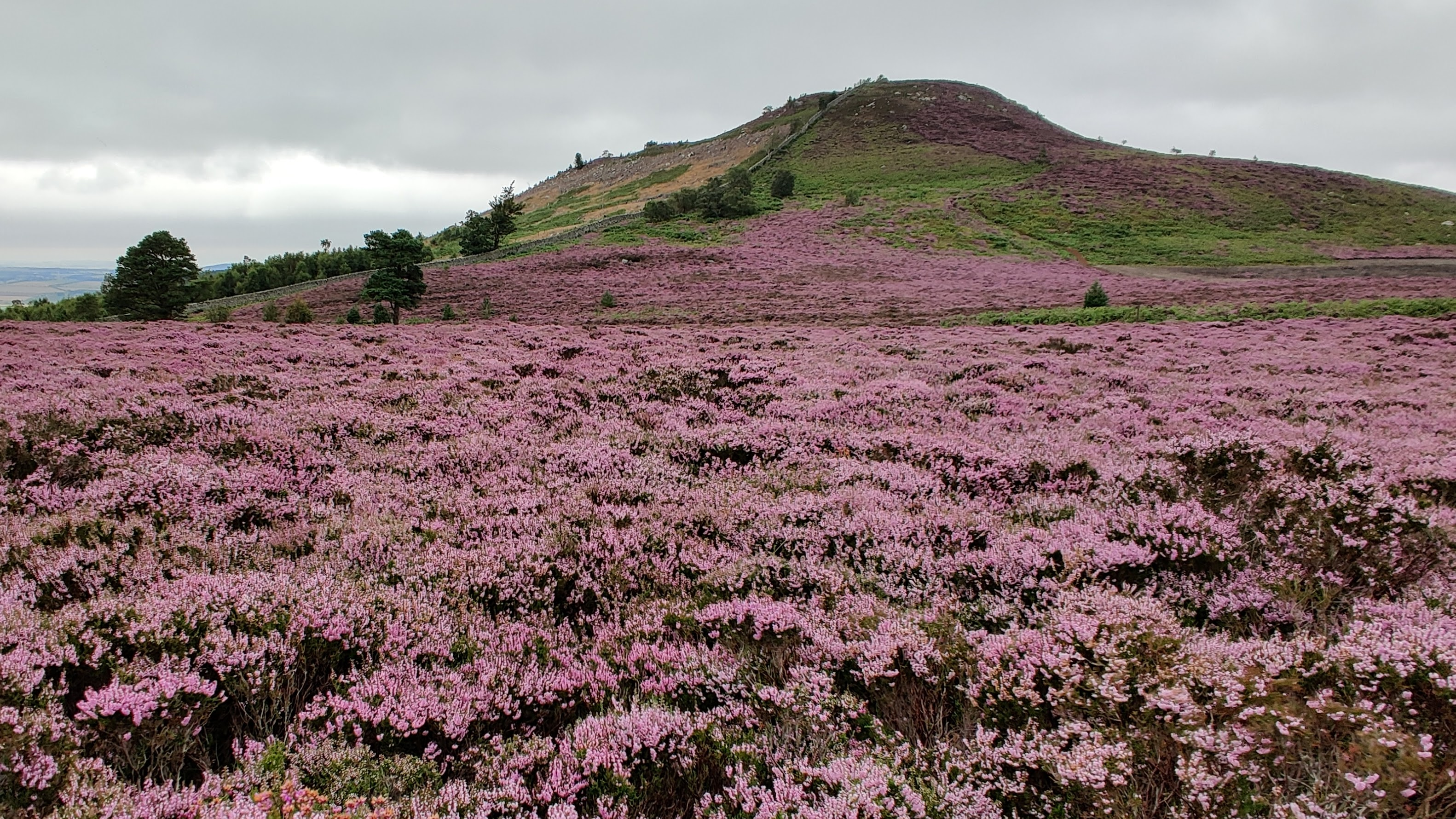 On a clear day, you can see seven castles from the summit, including the one on Lindisfarne.